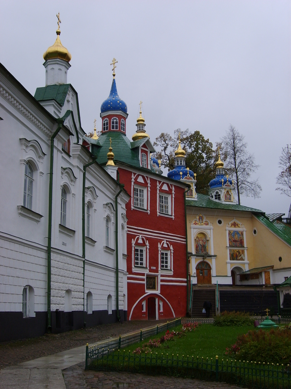 Pskovo-Pechersky Monastery. Sretenskaja Church (?), Riznitsa, Uspenskaja Church